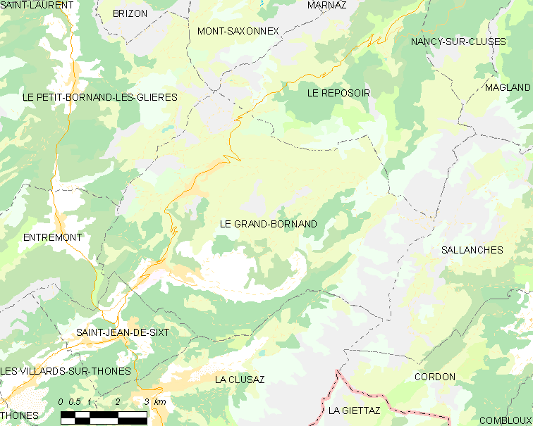 Map of French municipality Le Grand-Bornand